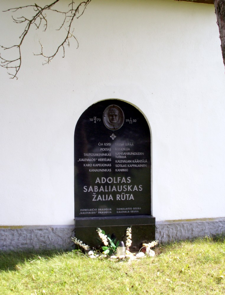 Churche in Mieleišiai. Grave of Adolfas Sabaliauskas